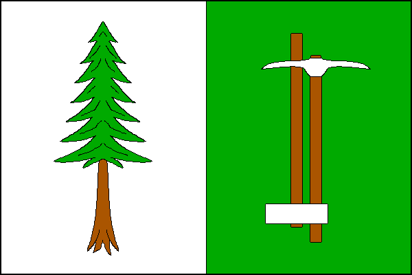 Municipal flag of Sirá village, Rokycany District, Czech Republic.